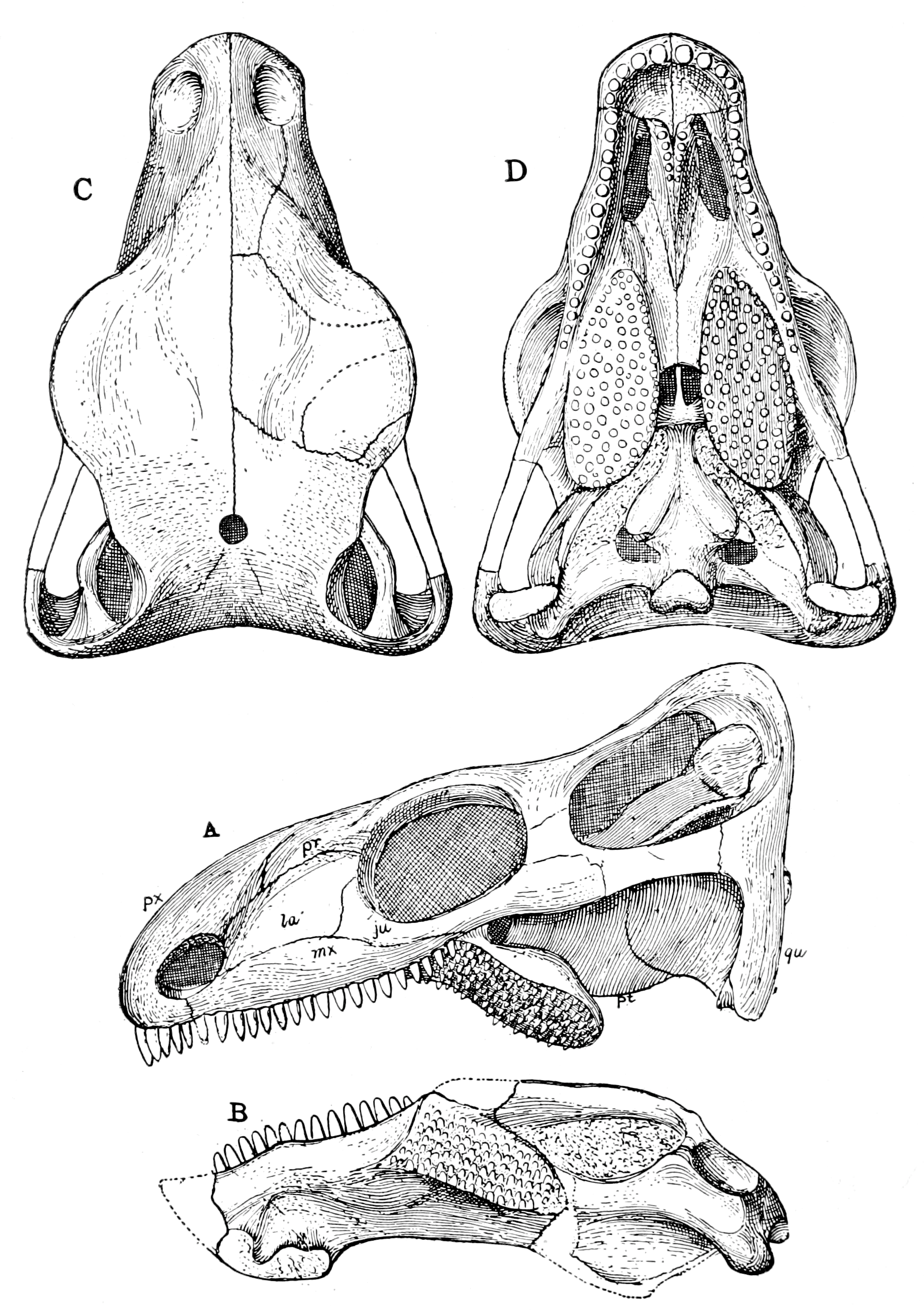 Illustration of Naosaurus claviger skull (from side, above, and below) from The Osteology of the Reptiles (1925)